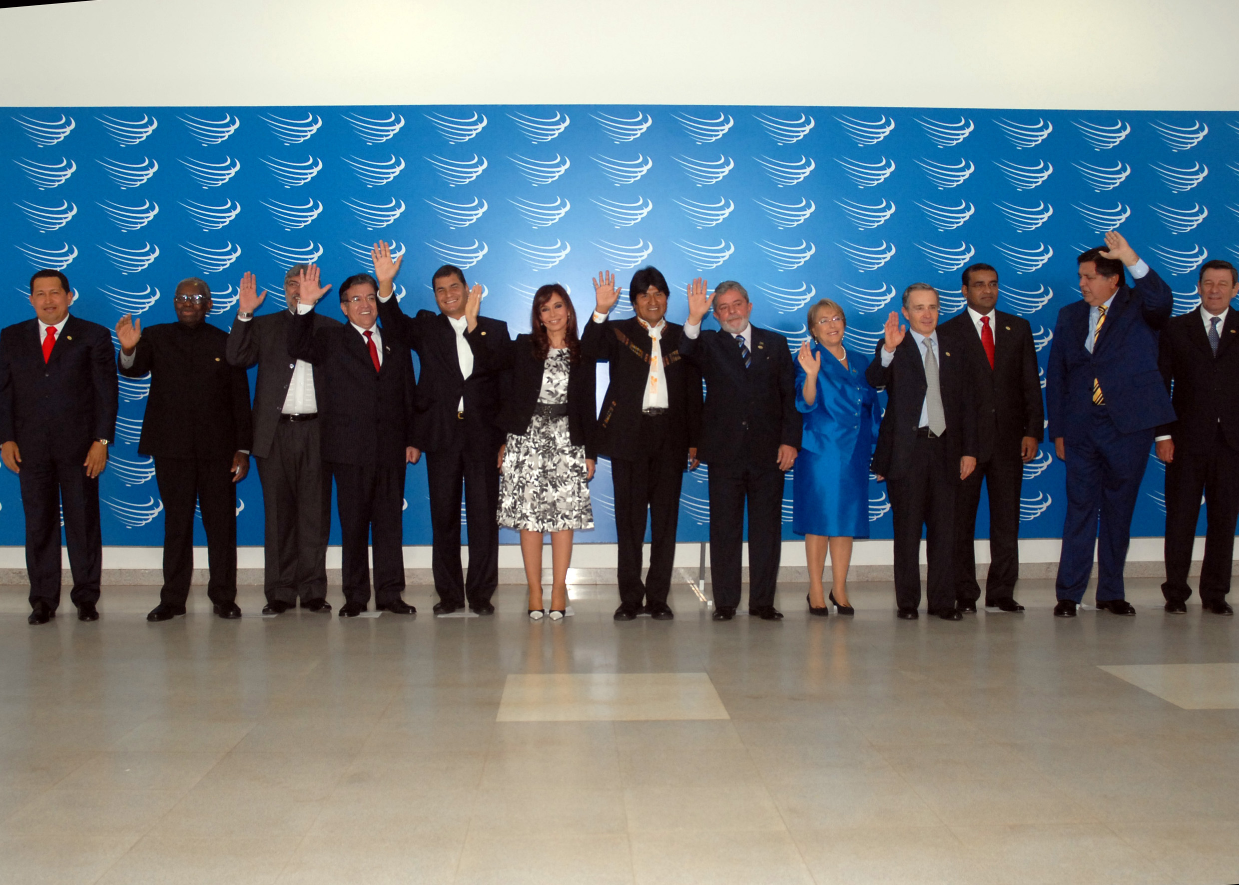 South American presidents during the 3rd Summit of Heads of State of the Union of South American Nations, held in Brasília on May 28 2008.